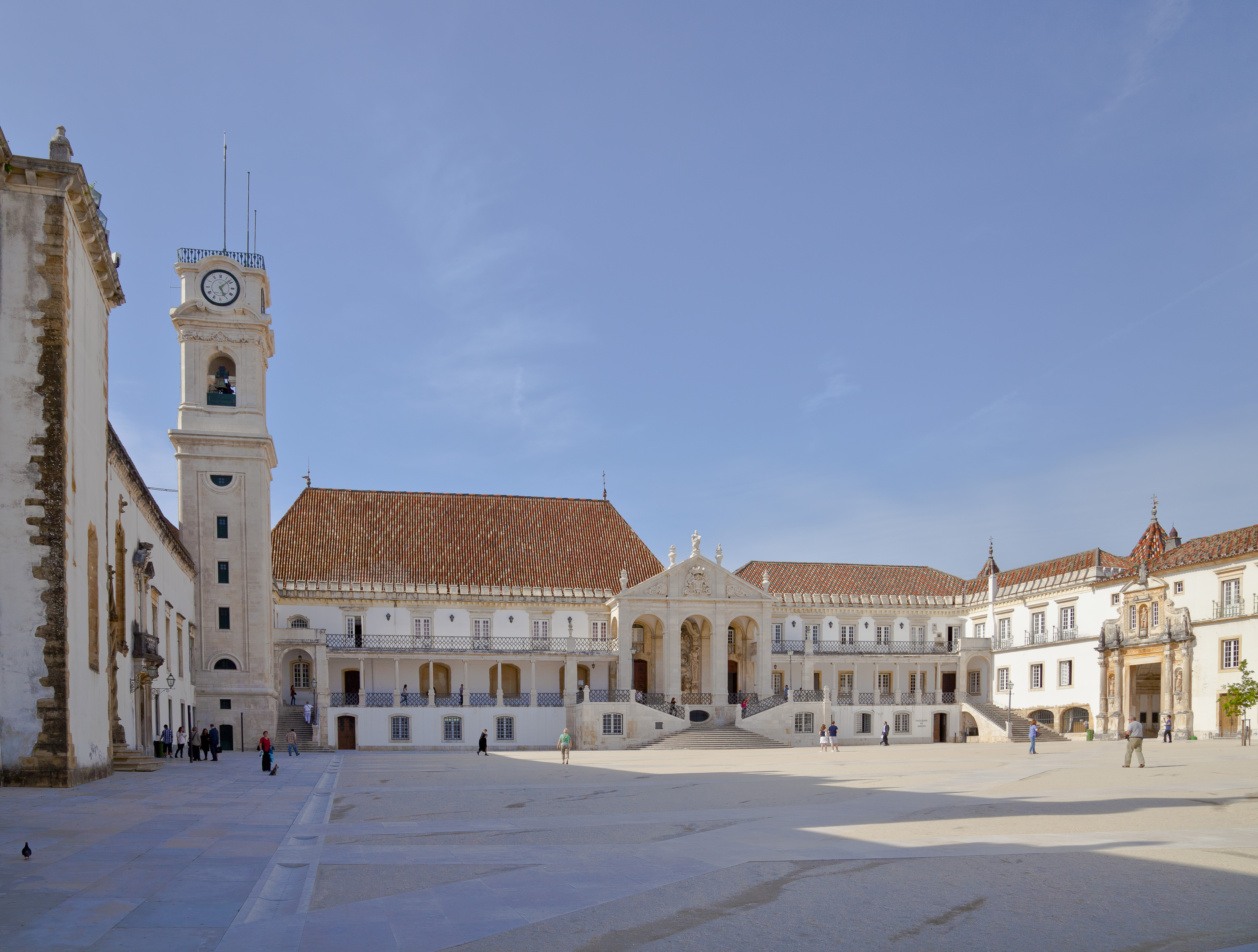 Square of the University of Coimbra, Portugal